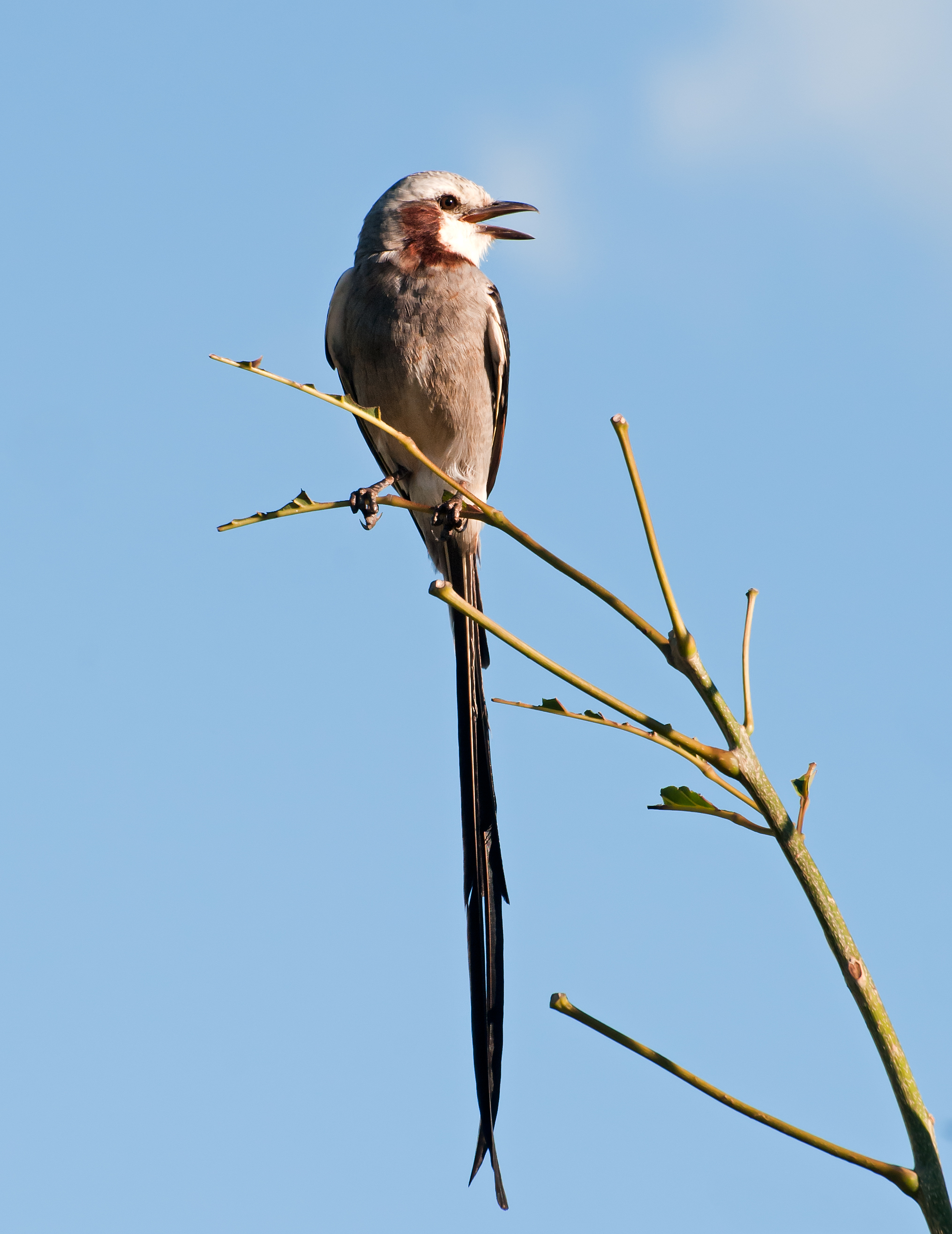 A Streamer-tailed Tyrant in Piraju, São Paulo, Brazil.